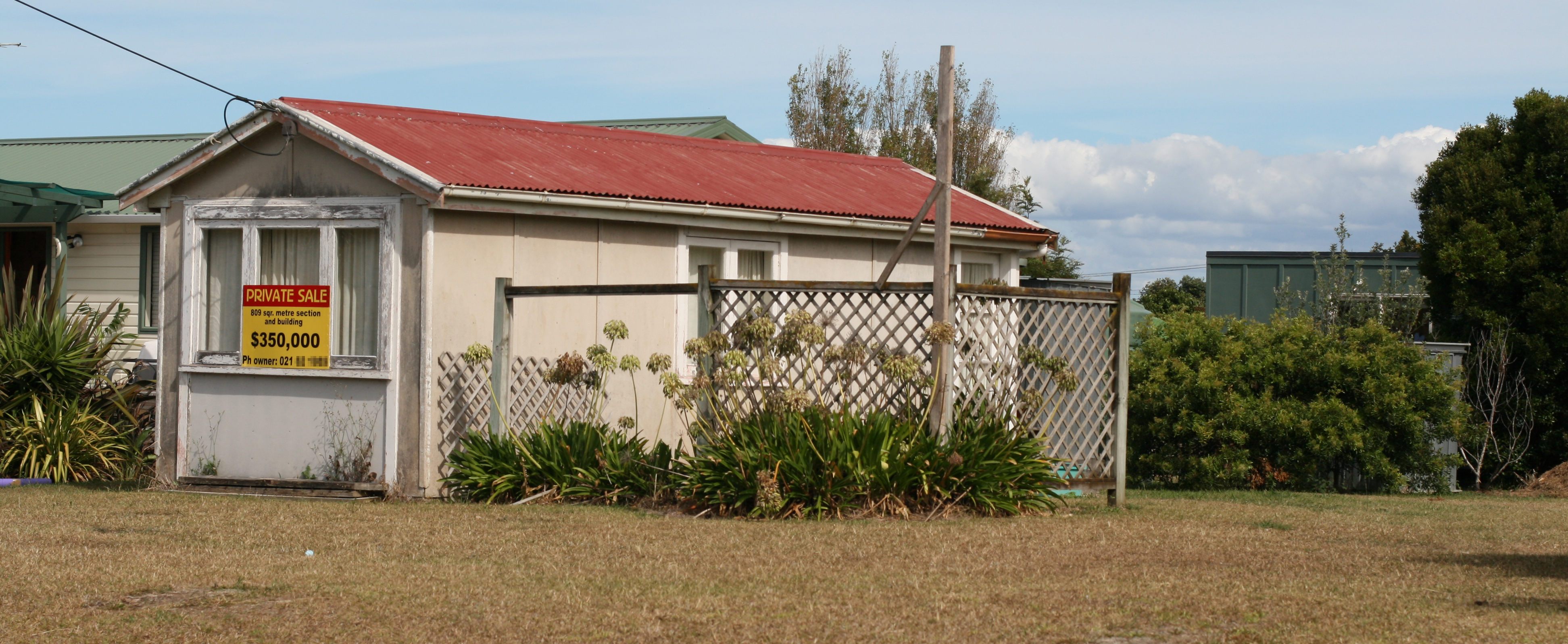 Bach destined for demolition as the land is worth more than the building. Blackpool, Waiheke Island, NZ (taken 9 March 2007)